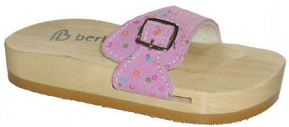 Gymnastic sandal with wooden sole and leather strap, made by the German company Berkemann. Model Berkilette. Colour wood and pink.